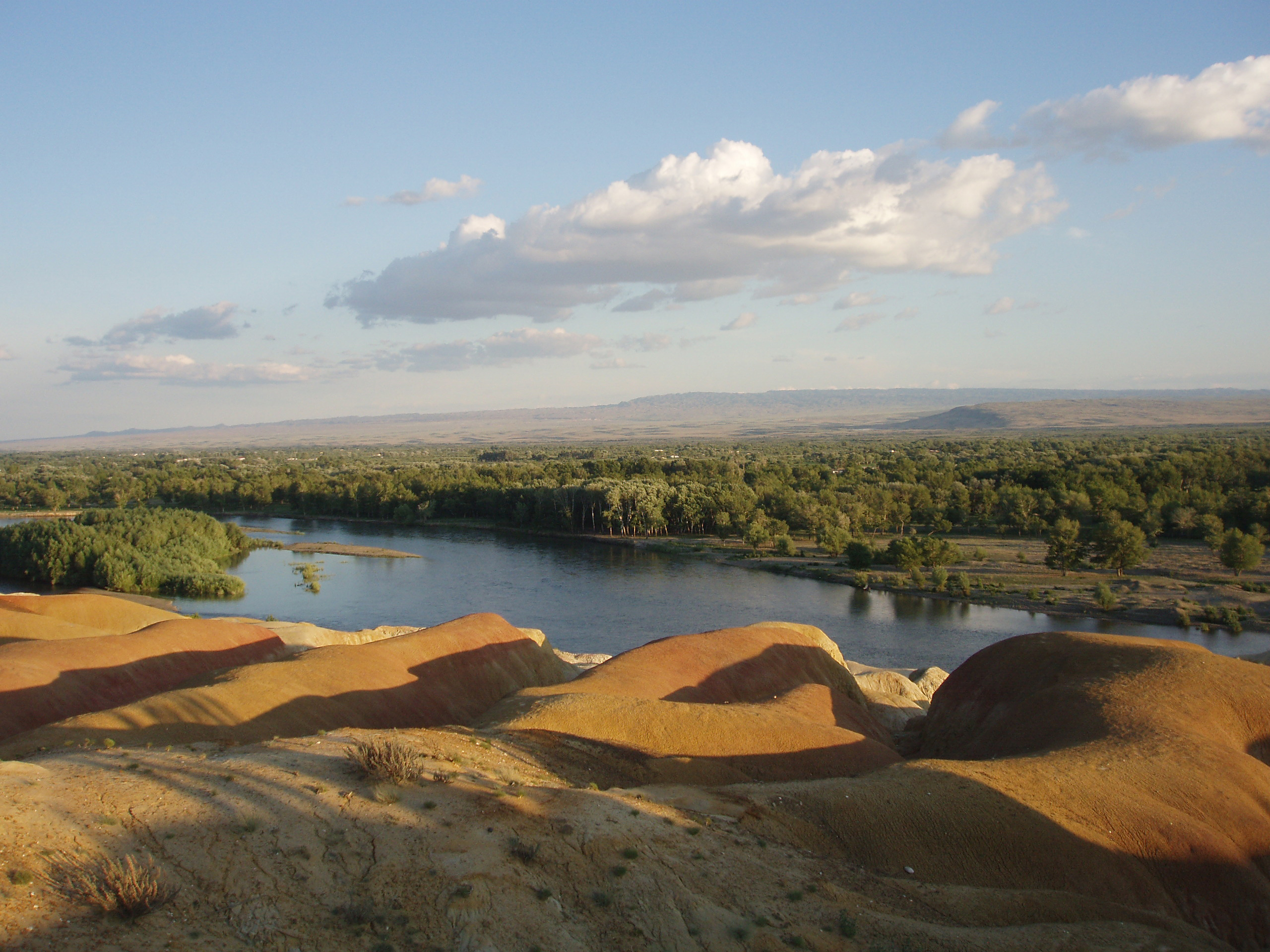 Colourful beach on the Irtysh River in the Burqin County, Xinjiang, China.